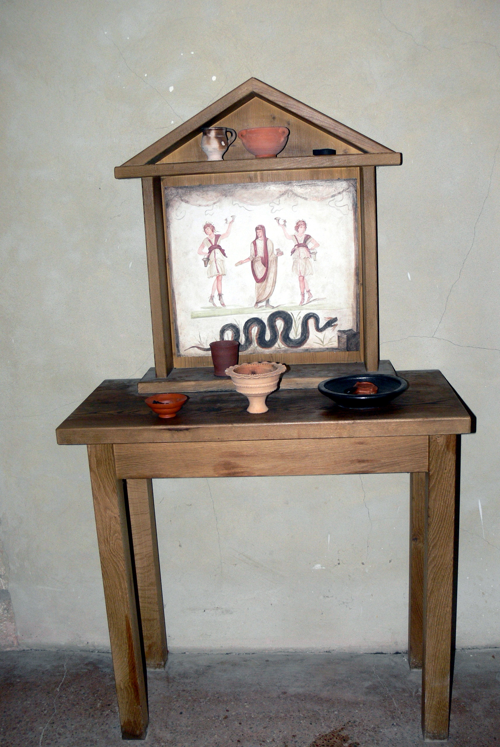 Open air museum Petronell ( Lower Austria ). House of Lucius: Living room - Lararium.